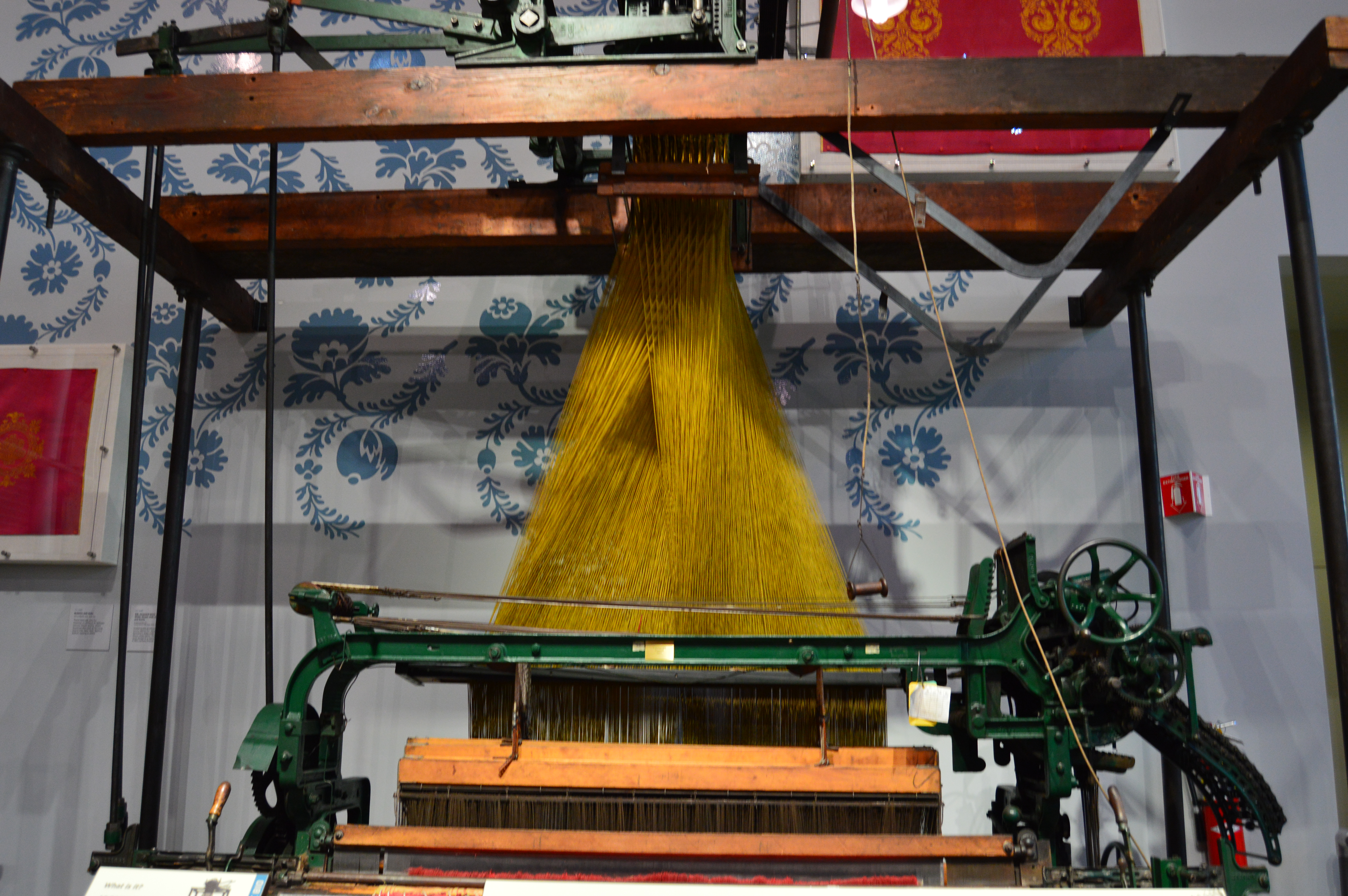 photo